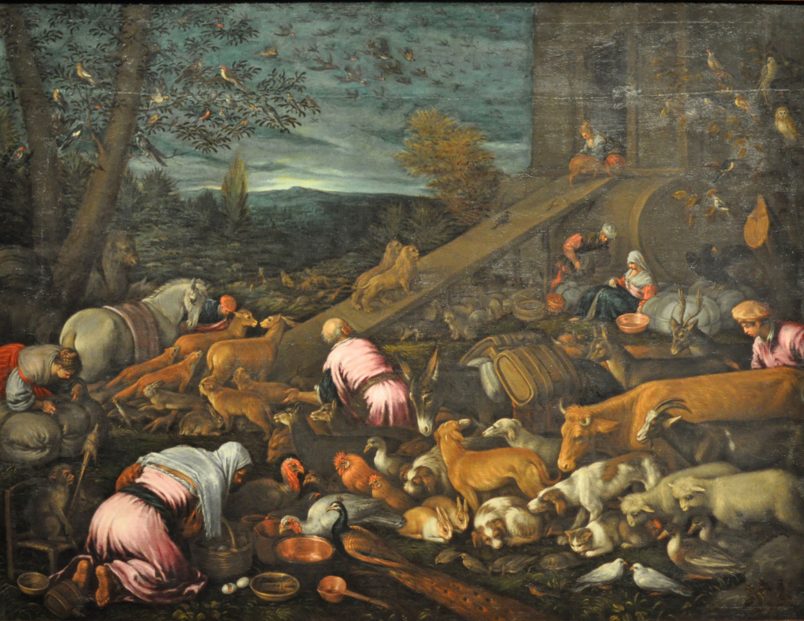 with the assistance of Francesco and Leandro Bassano (Da Ponte)